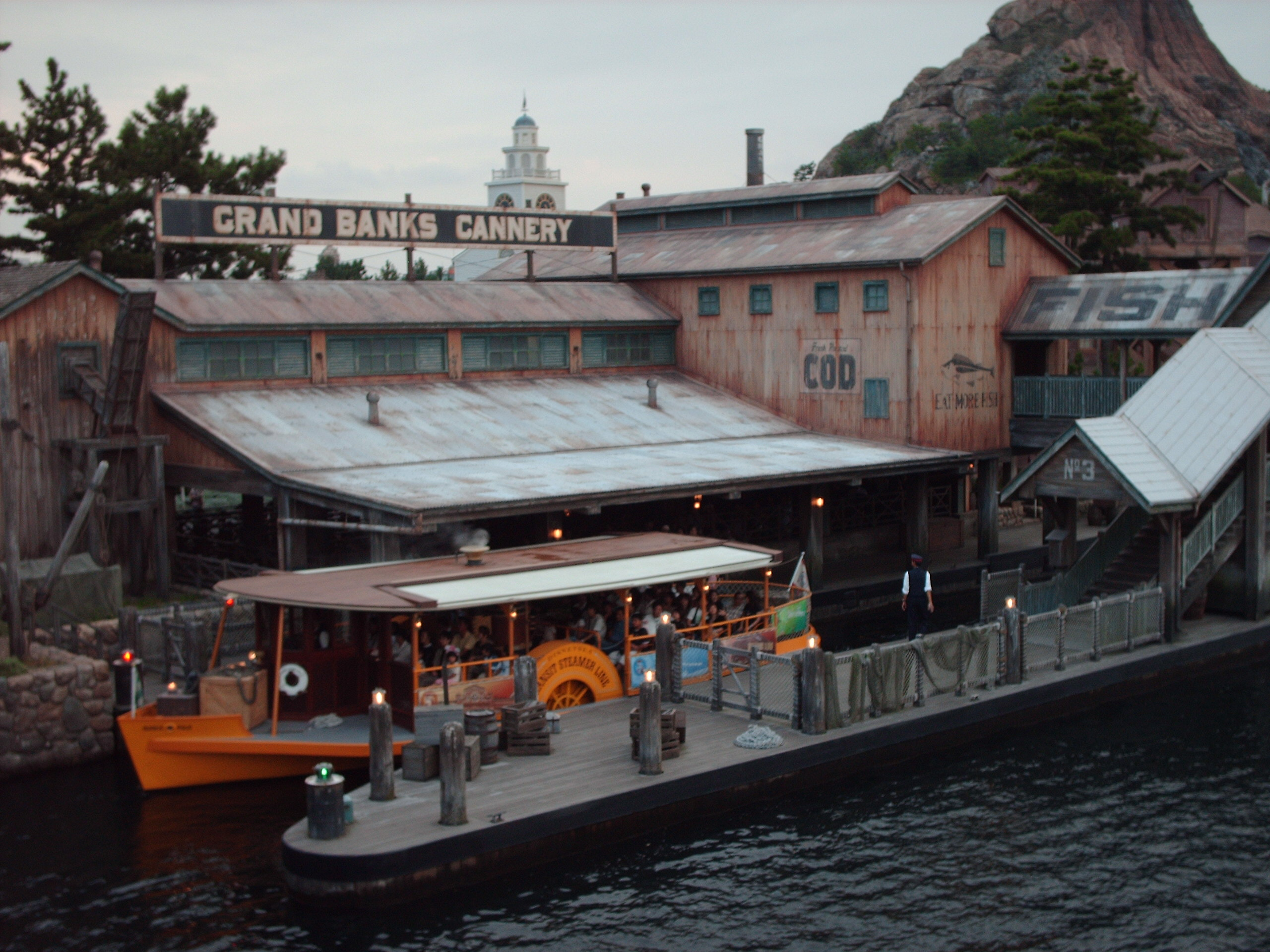 A loading dock for a boat ride themed to an old Cannery in the Cape Cod area of Tokyo DisneySea, Japan